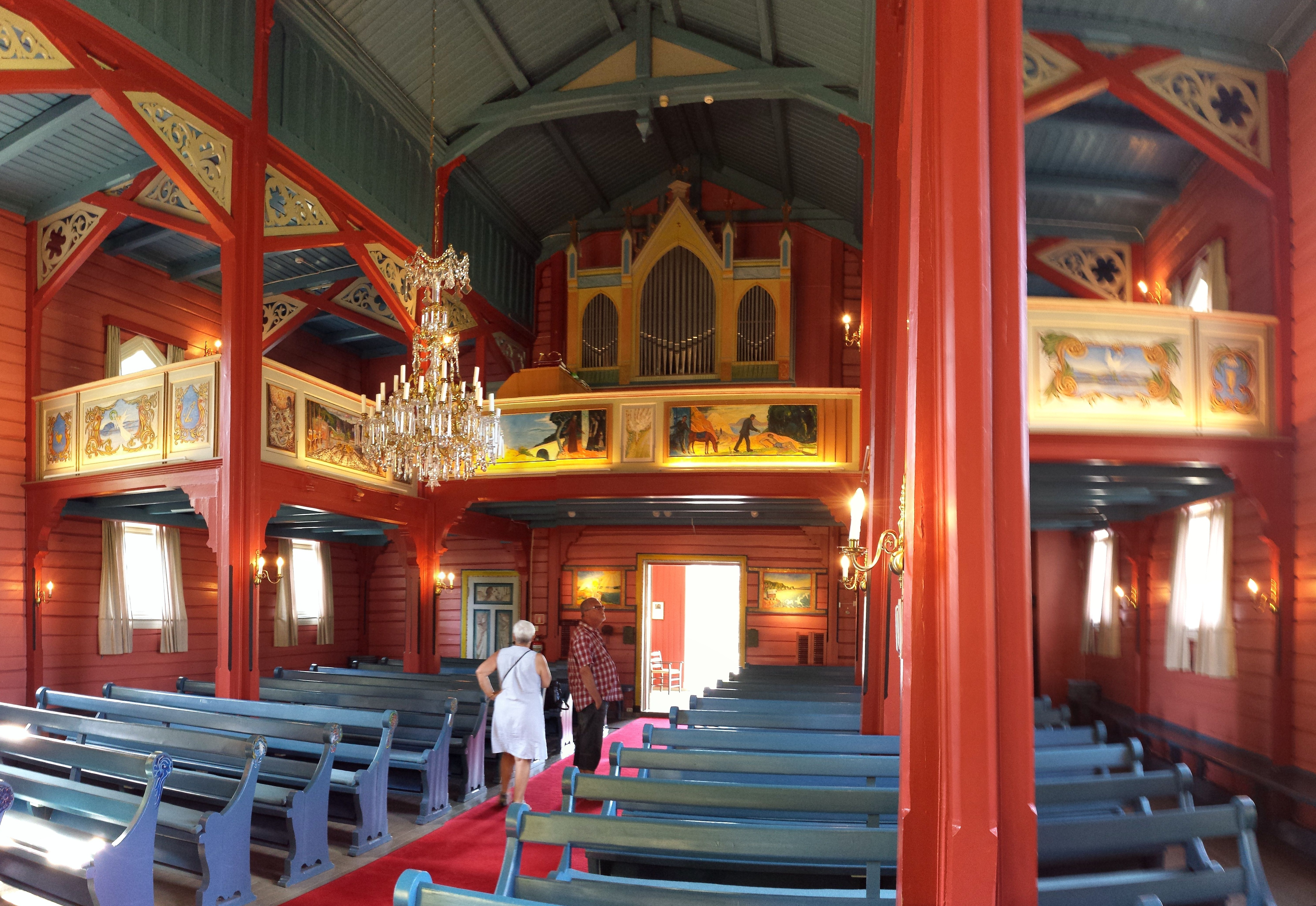 Interior of Holmsbu Church, South Norway. The church was decorated by artists who formed a colony in the village, under the direction of Henrik Sørensen. The work was ended in 1954, but the altarpiece was added by Reidar Fritzvold in 1963, and the entrance doors were decorated by Kåre Øijord in the 1970s.